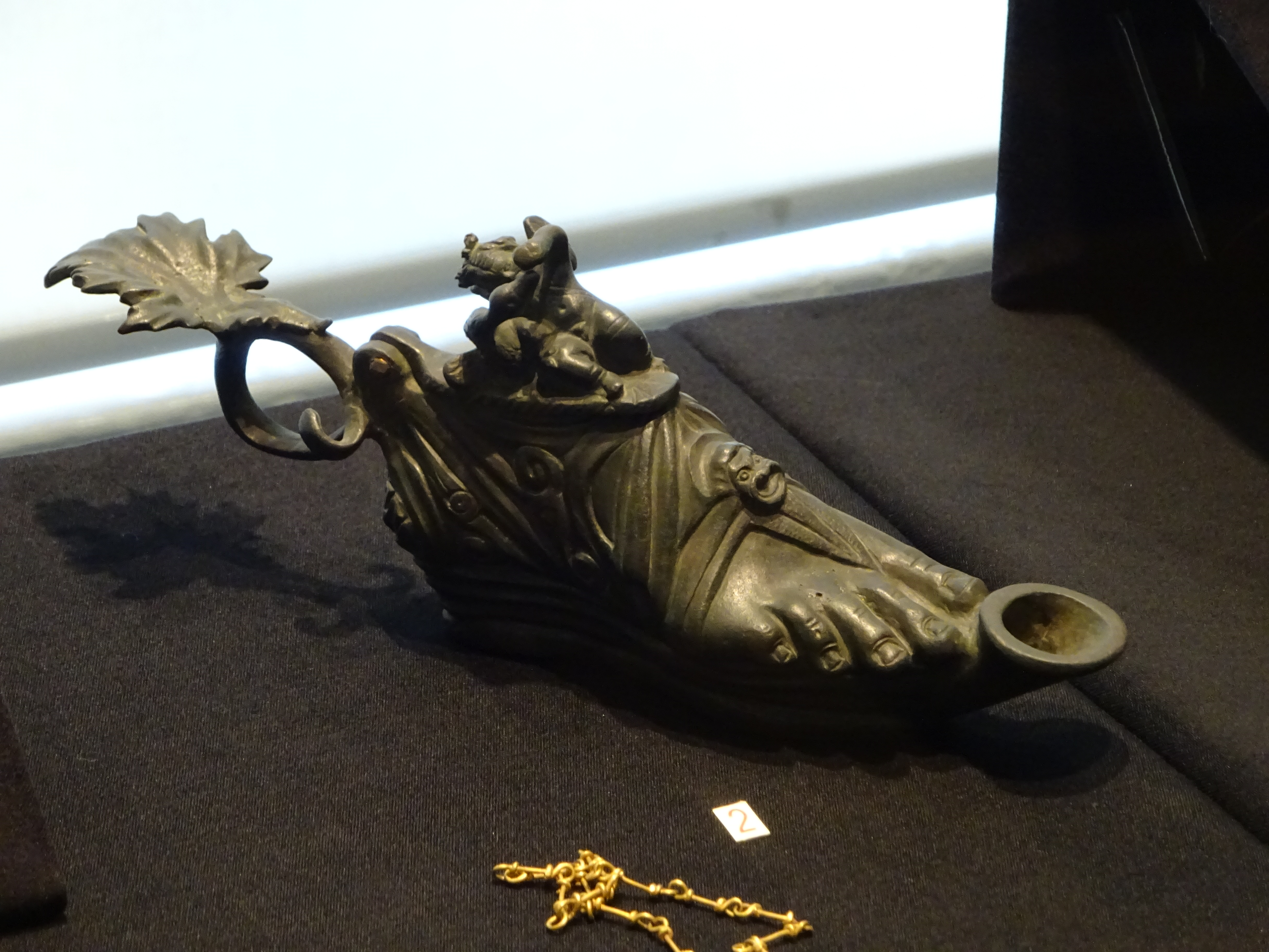 Lamp shaped as a foot in a sandal. Bronze. Bozveliisko, Varna region. 1st Century AD